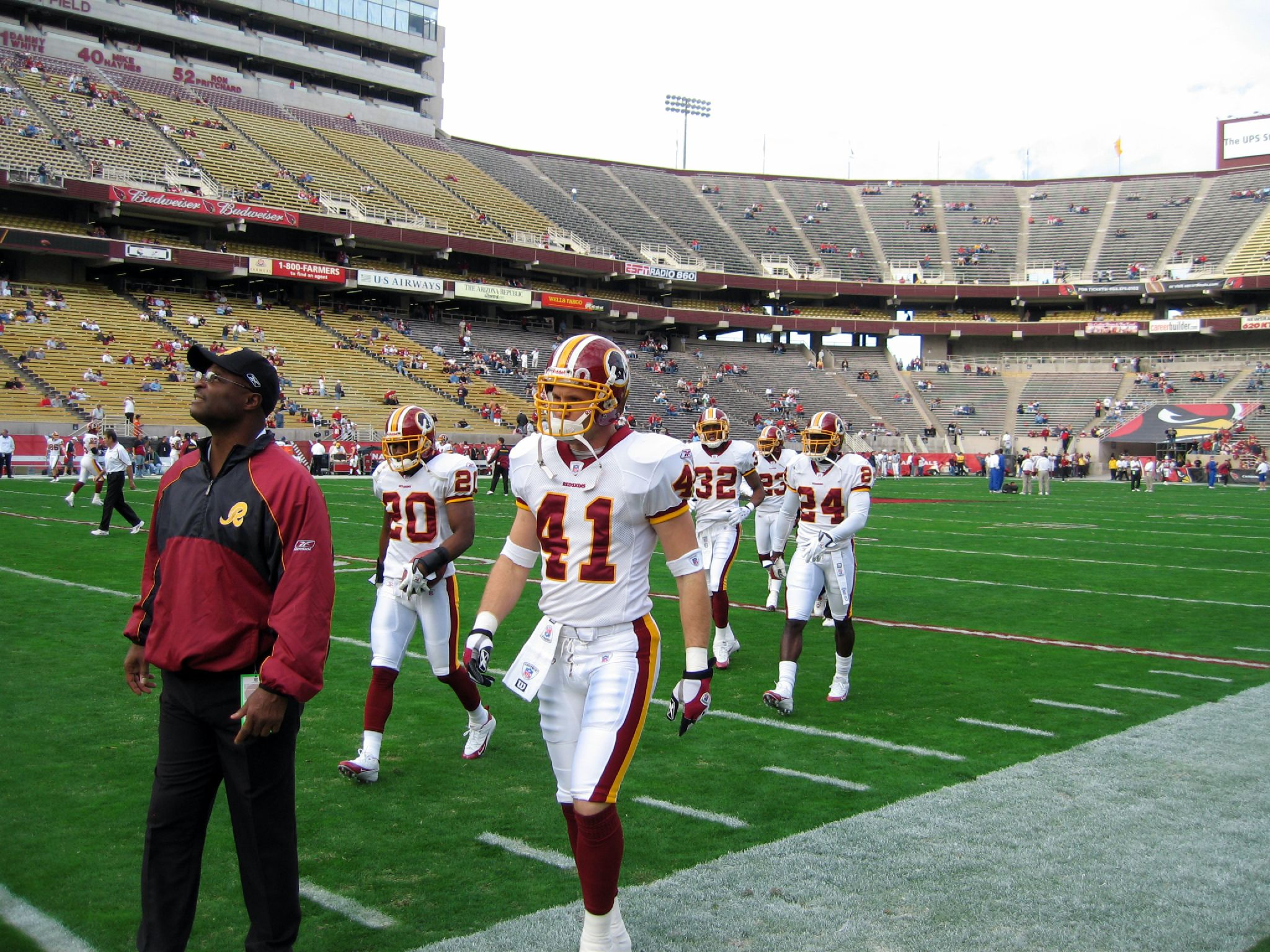 The players depicted are believed to be #20 Pierson Prioleau, #41 Matt Bowen, #32 Ade Jimoh, #23 Omar Stoutmire, and #24 Shawn Springs (all defensive backs)